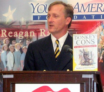 American blogger/writer/columnist/journalist Robert Stacy McCain, pictured at a Young America's Foundation event on April 11, 2006 in Washington D.C. This is a cropped version of the original photograph.